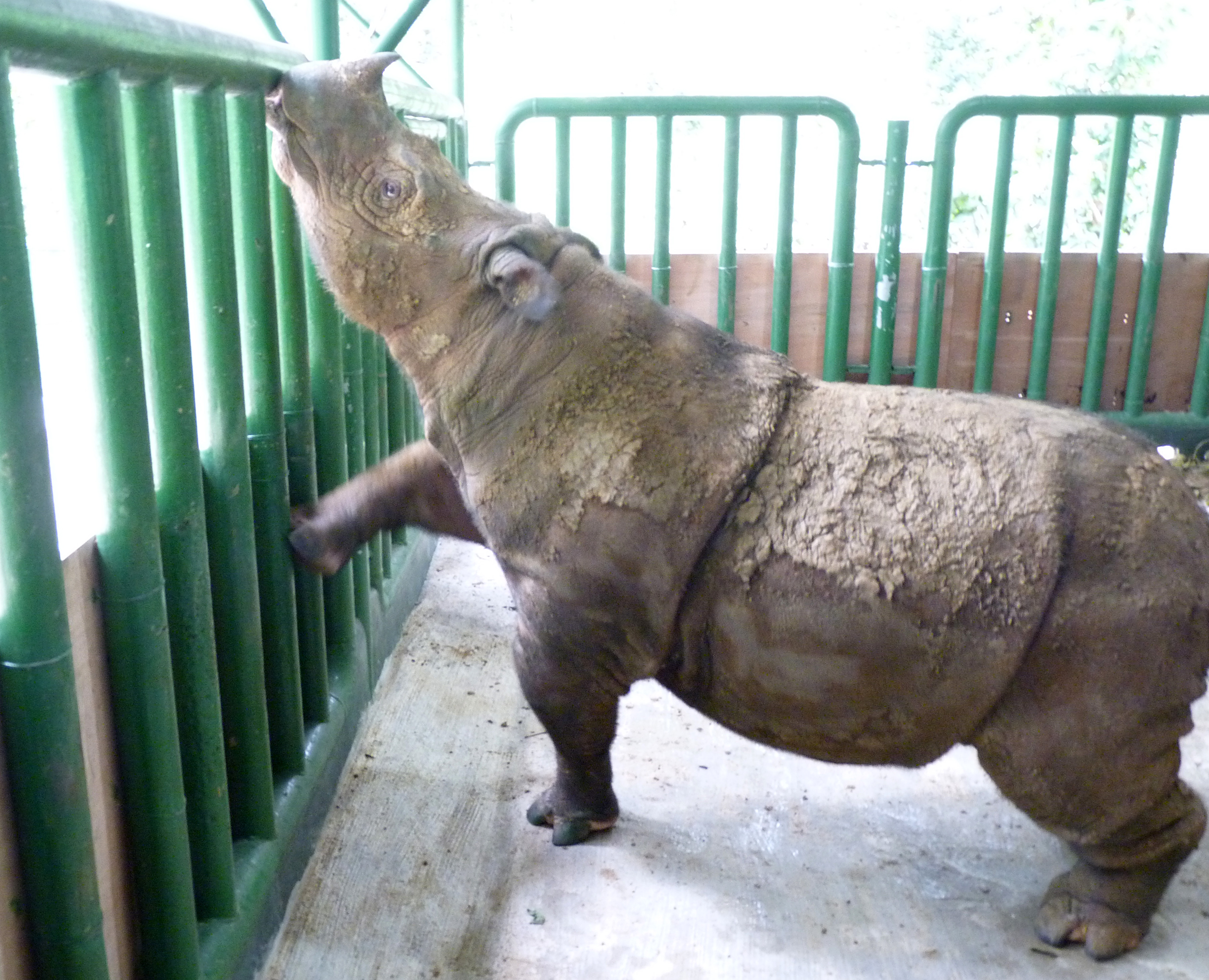 Ratu restless during labor photo by BBryant